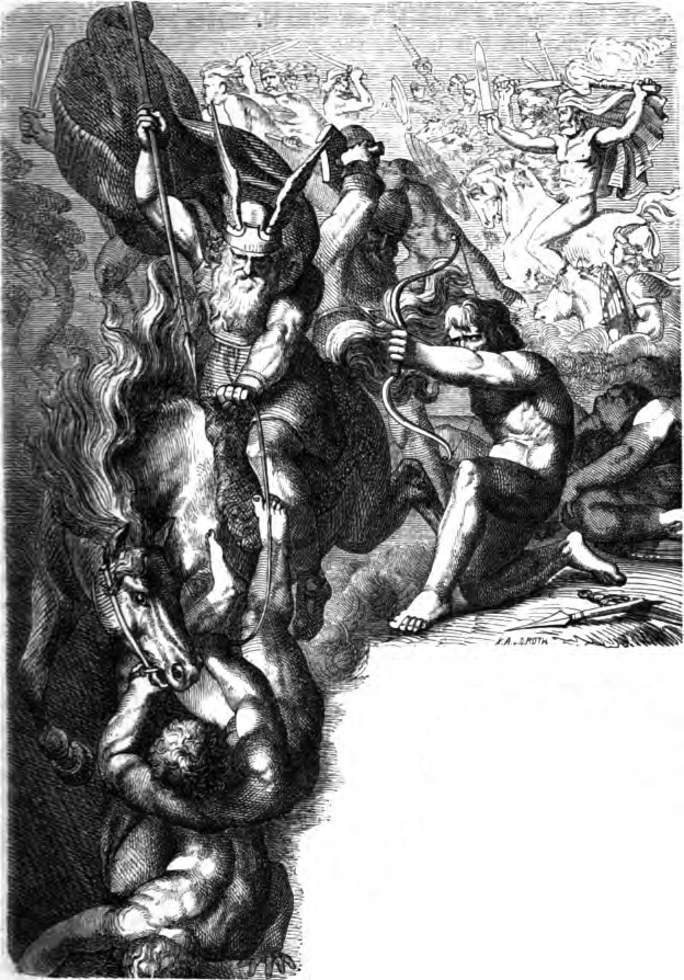 Captioned as "Asen gegen die Wanen". The Æsir fight against the Vanir during the Æsir-Vanir War.